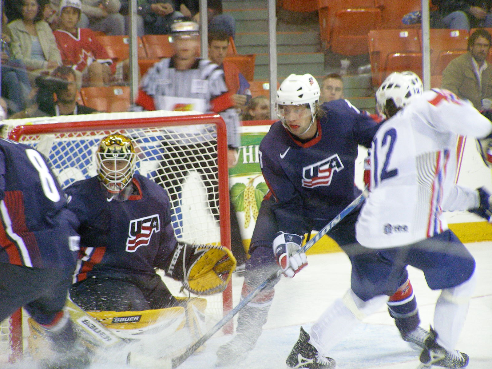 Slovenia VS USA (IIHF World Hockey Championship in Halifax NS, May 4 2008)